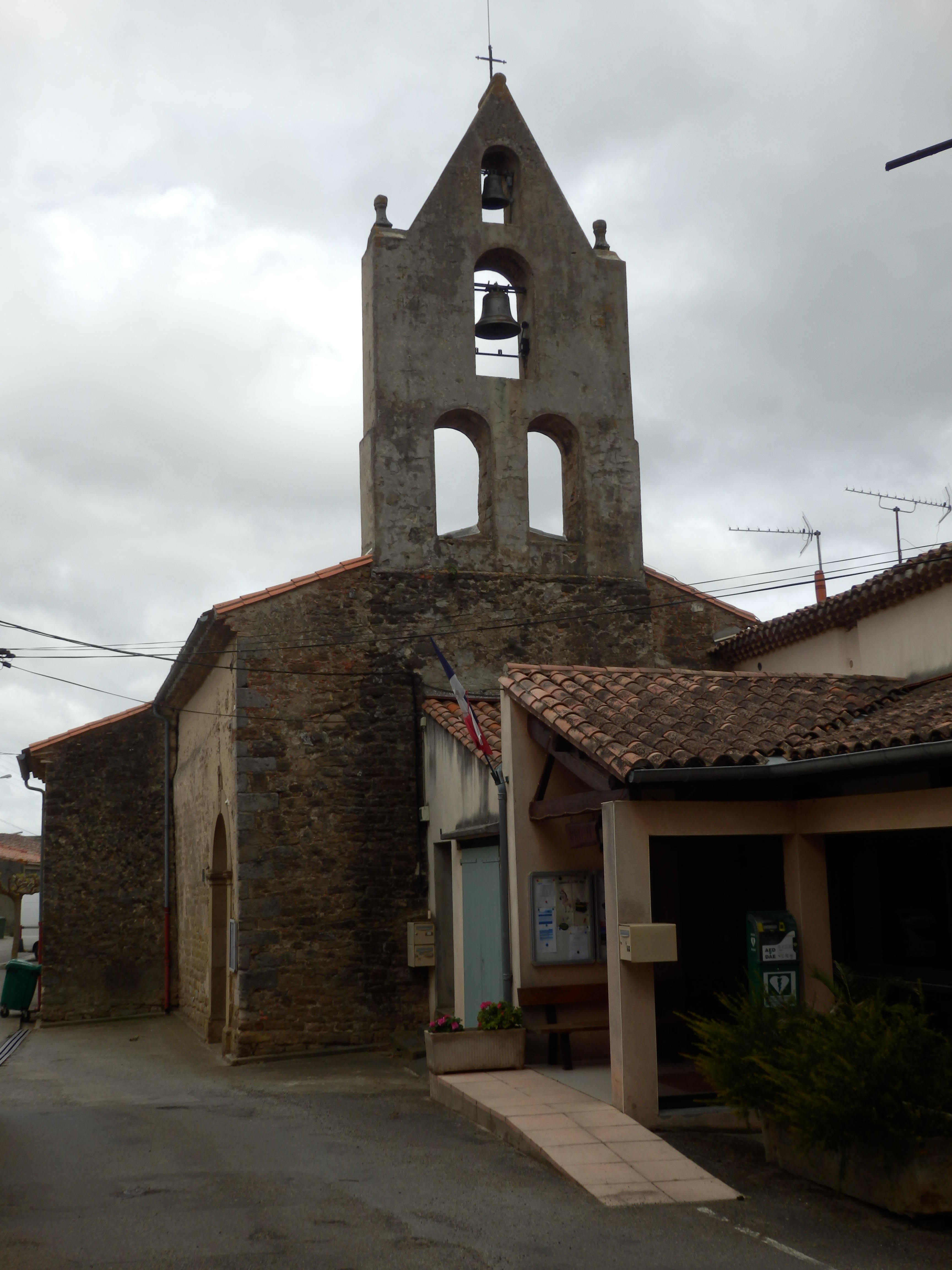 Church of Ajac, Aude, France